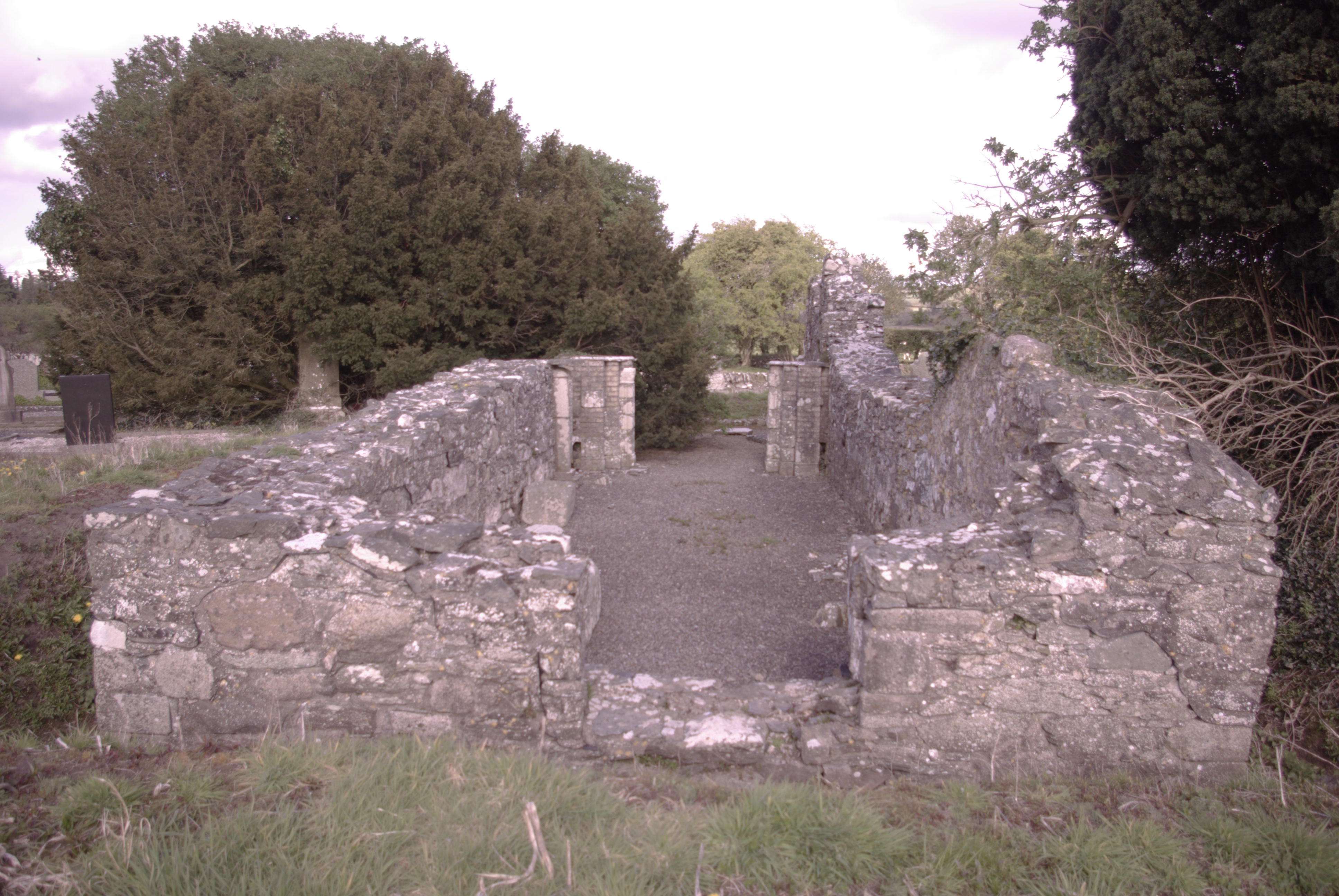 Ruin of Kilteel church, County Kildare, Ireland, from the west